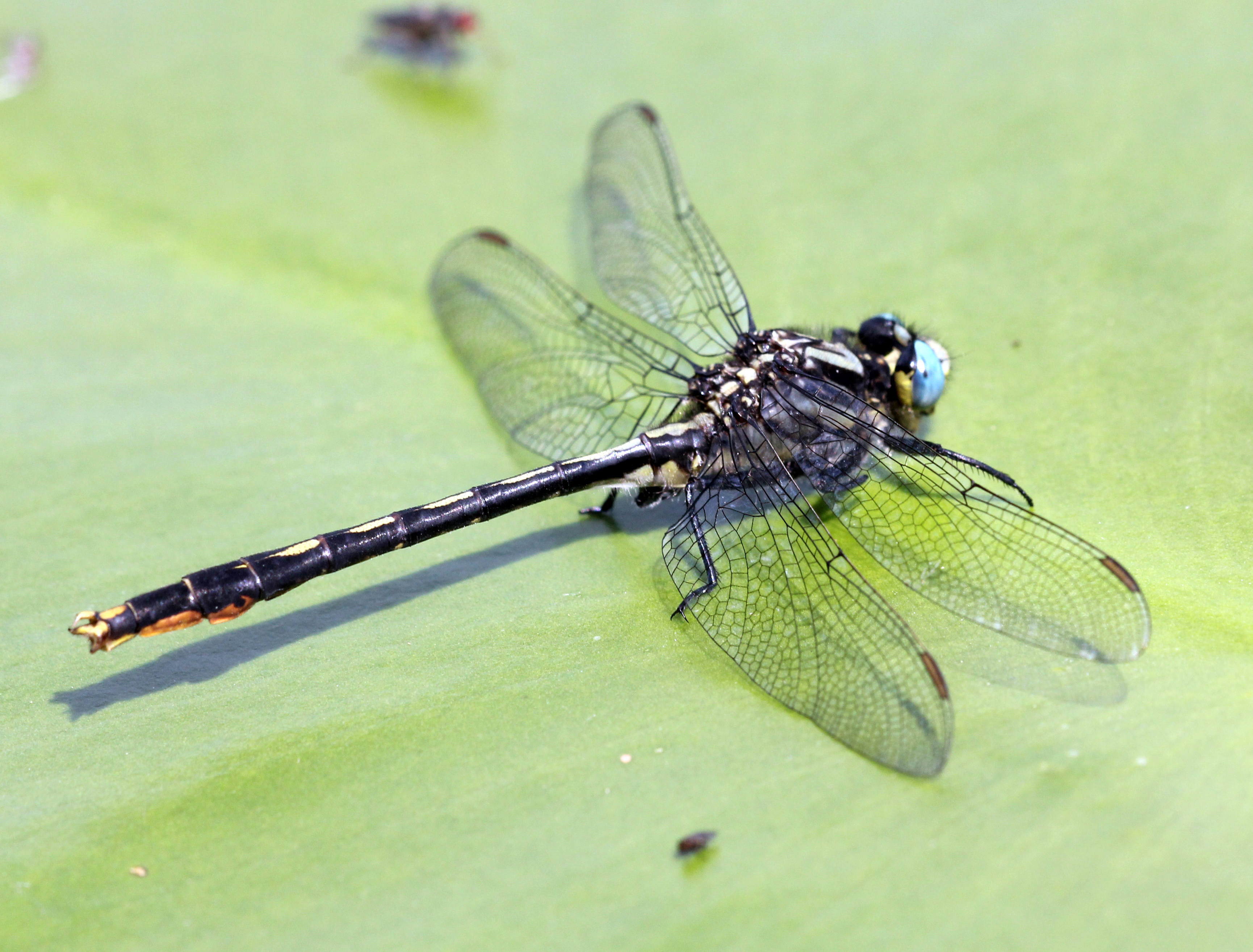 Arigomphus furcifer male